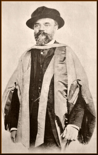 Czech Composer Antonín Dvořák (1841-1904) as Doctor h.c. in the University of Cambridge in 1891 Česky: Antonín Dvořák jakožto doktor h.c. na univerzitě v Cambridge v r. 1891